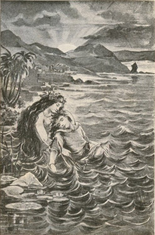 picture from the book: Hans Christian Andersen "Baśnie", Gebethner i Wolff, Warszawa 1899